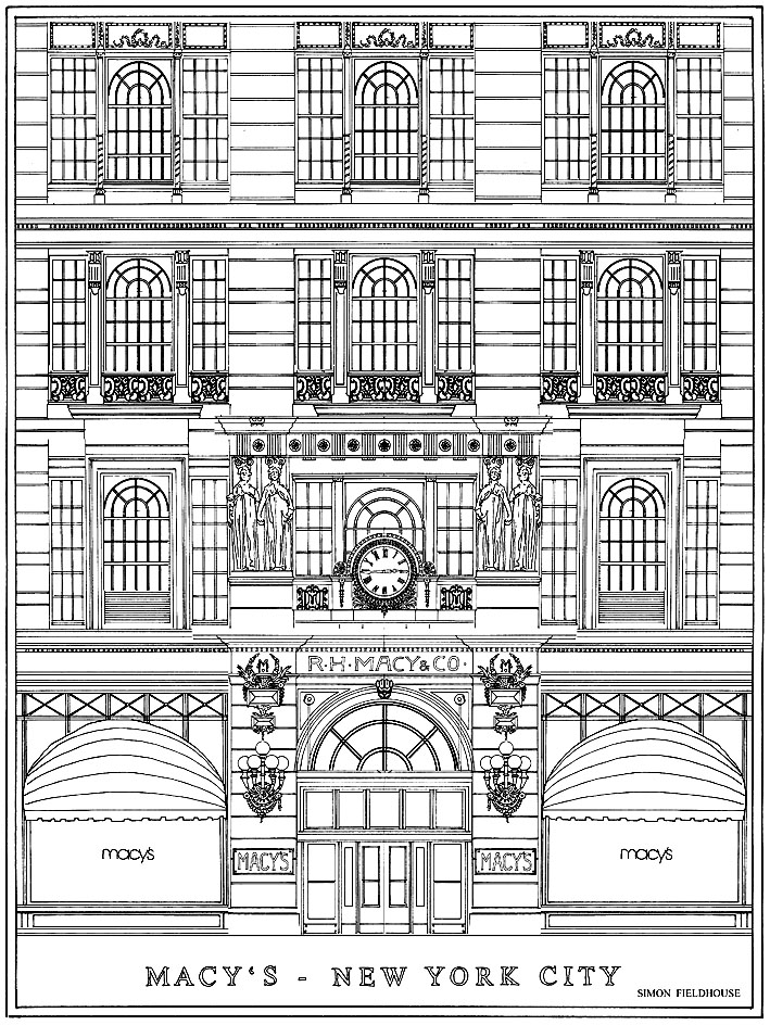 I, Simon Fieldhouse made this drawing.Simon Fieldhouse